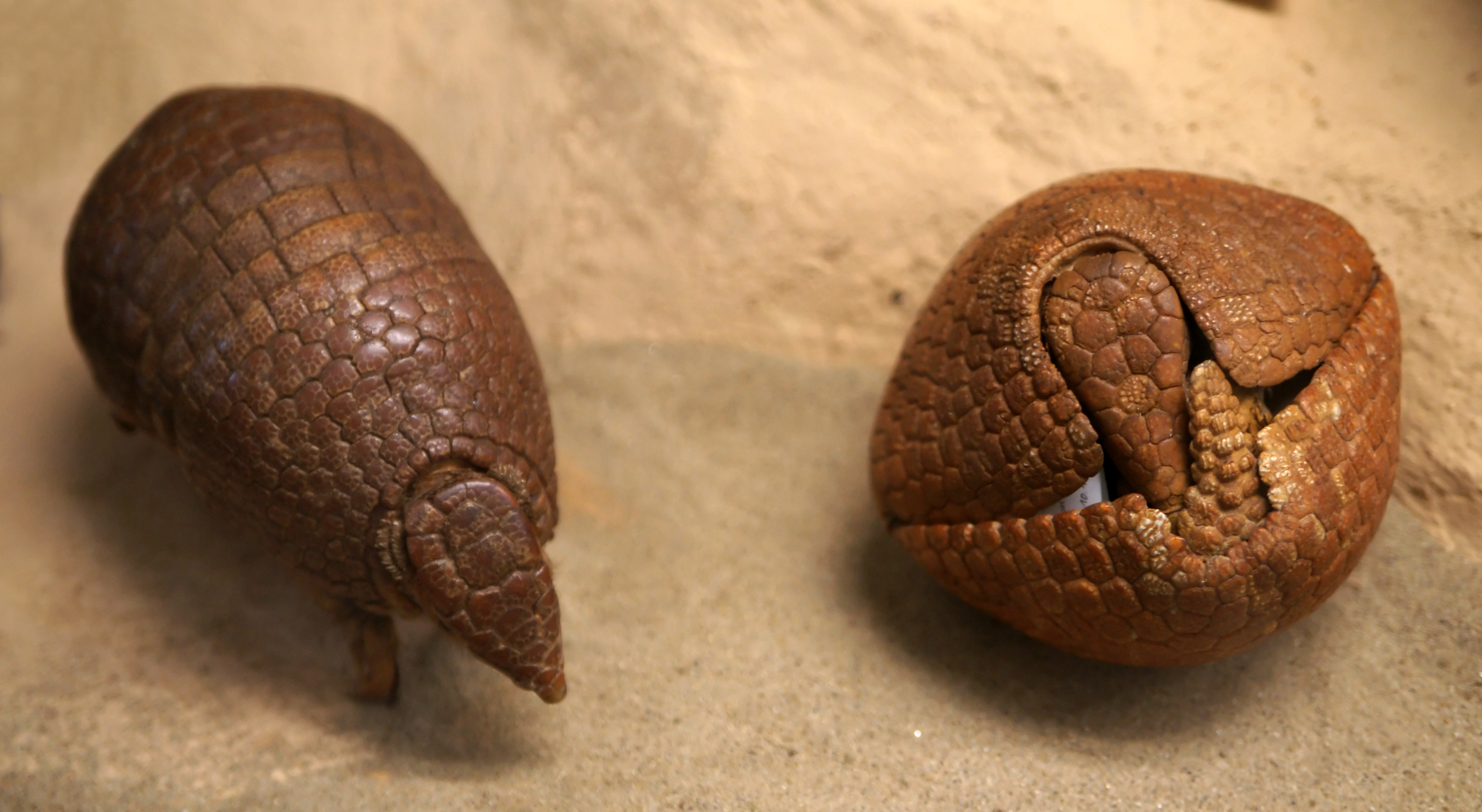 Southern Three-banded Armadillo, Tolypeutes matacus, in the Natural History Museum, Vienna.